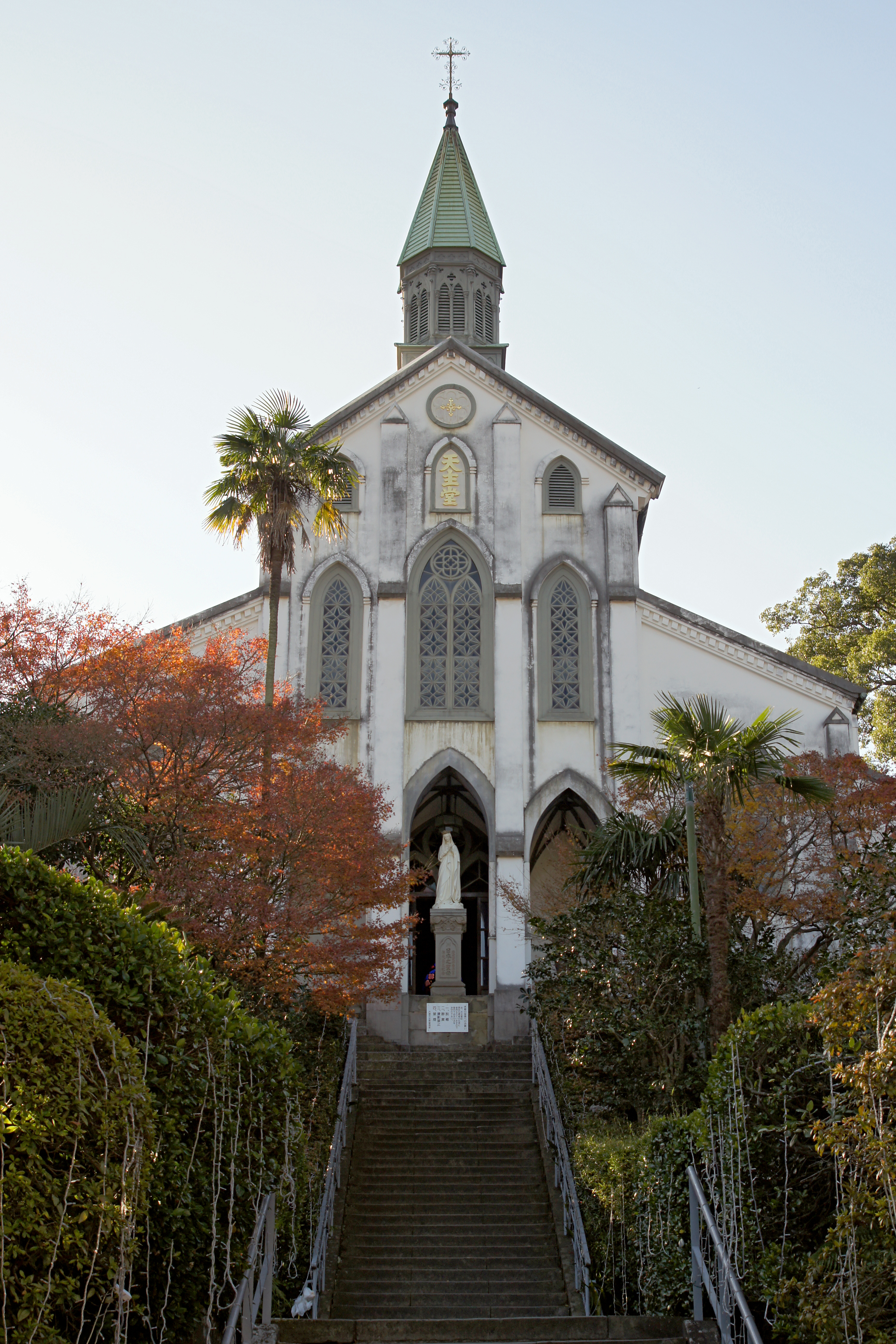 Oura_Church is a Japan's National Treasure in Nagasaki, Nagasaki prefecture, Japan